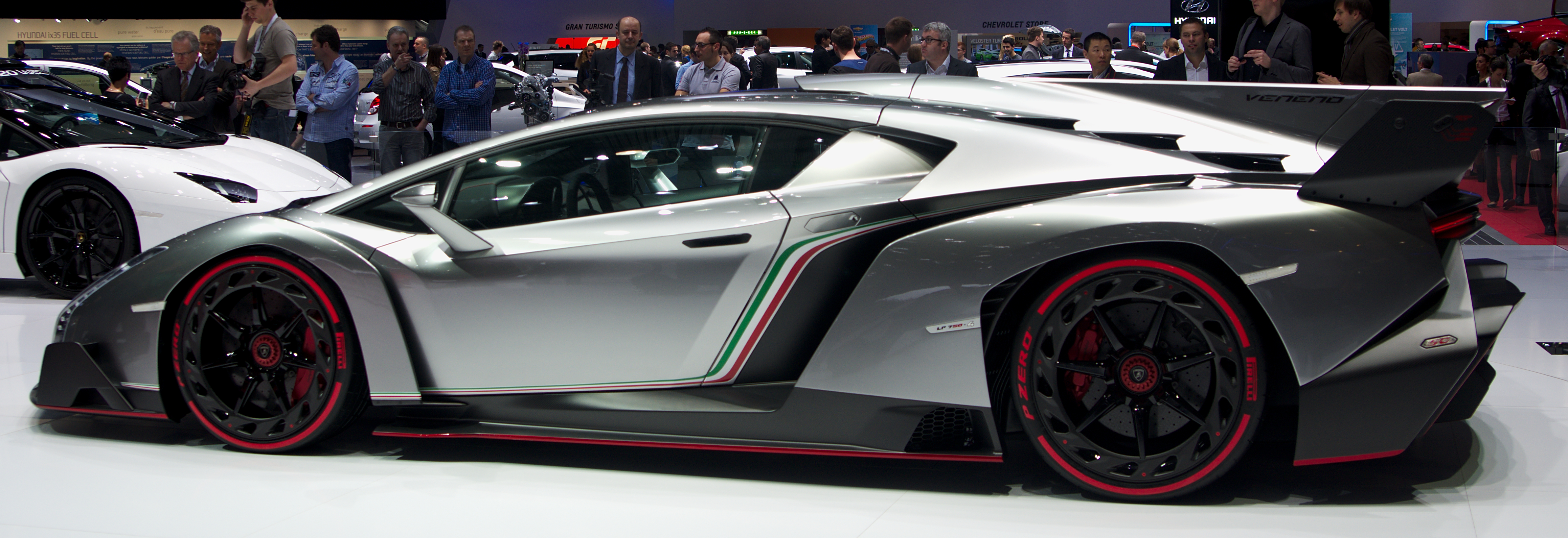 Geneva MotorShow 2013 - Lamborghini Veneno